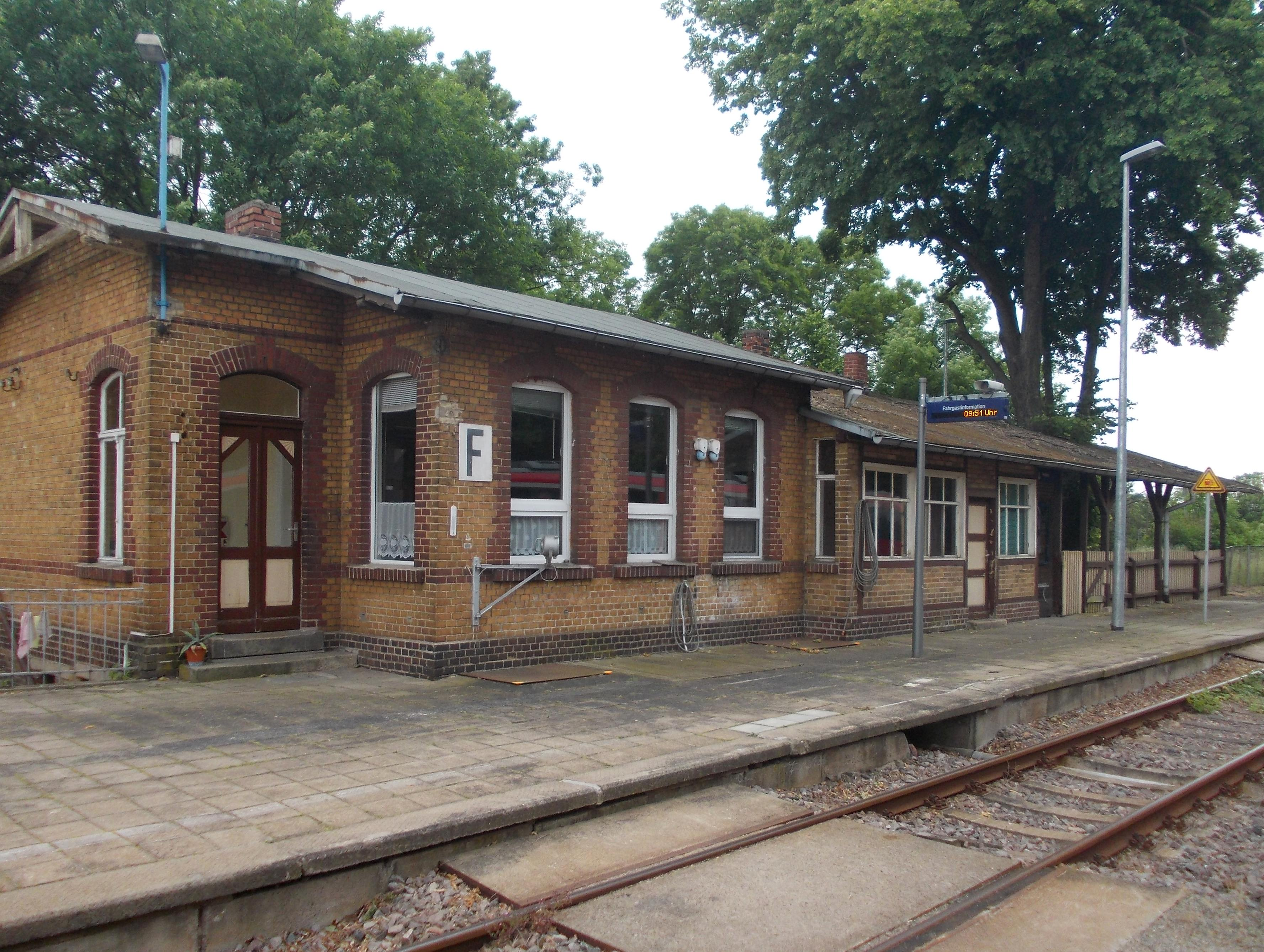 Dessau-Mosigkau train station (Dessau-Rosslau, Saxony-Anhalt)